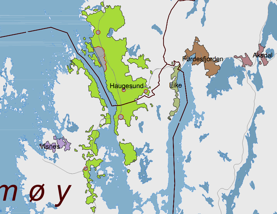 Urban area of Haugesund 2005